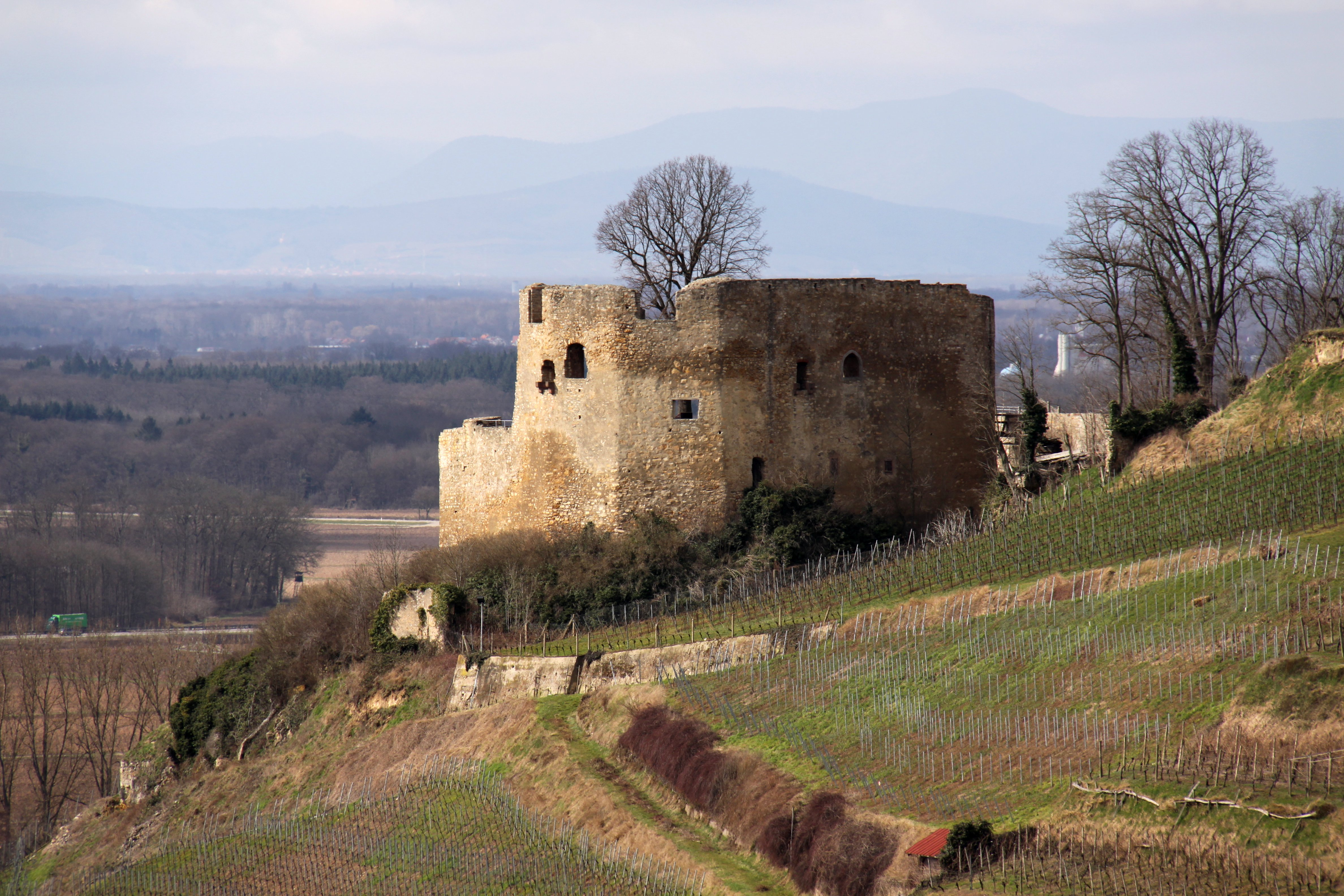 Ruin of Castle Lichteneck in Kenzingen-Hecklingen, Germany